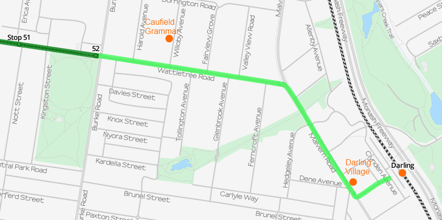 A map of the proposed extension to the Route 5 tram in Melbourne. Dark green shows current route, light green shows proposed route, orange dots show points of interest.